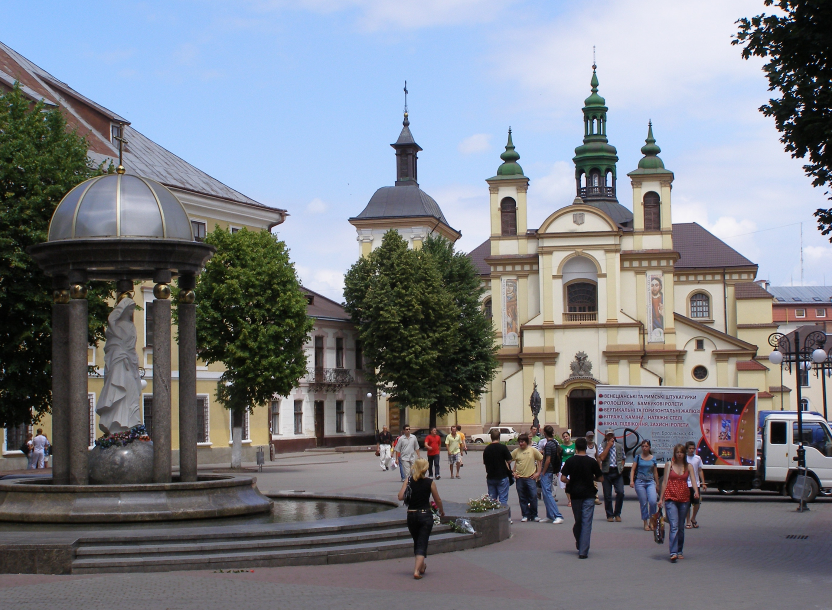 Church of Virgin Mary, Ivano-Frankivsk, western Ukraine.